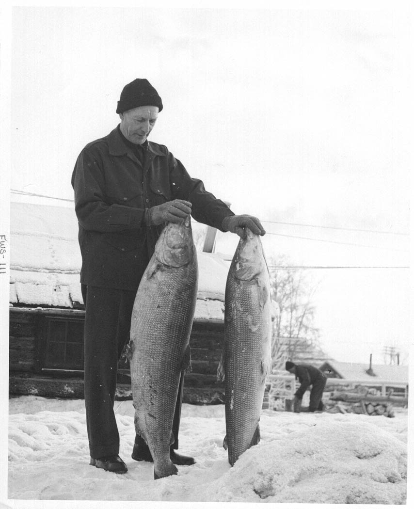 U.S. Fish and Wildlife Service agent Frank Glaser with two sheefish caught through the ice by Iniuit at Kotzebue, Alaska in December, 1952. The larger fish weighed 40 lbs., 50" long, 27" girth. The smaller weighed 30 lbs., 48" long, 22" girth. This is a semi-commercial fishery which annually